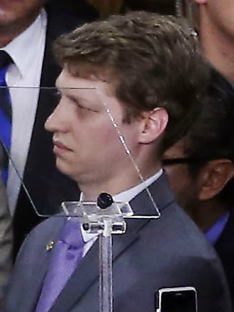 Marcel Van Hatten at the inauguration ceremony of Brazilian President Michel Temer